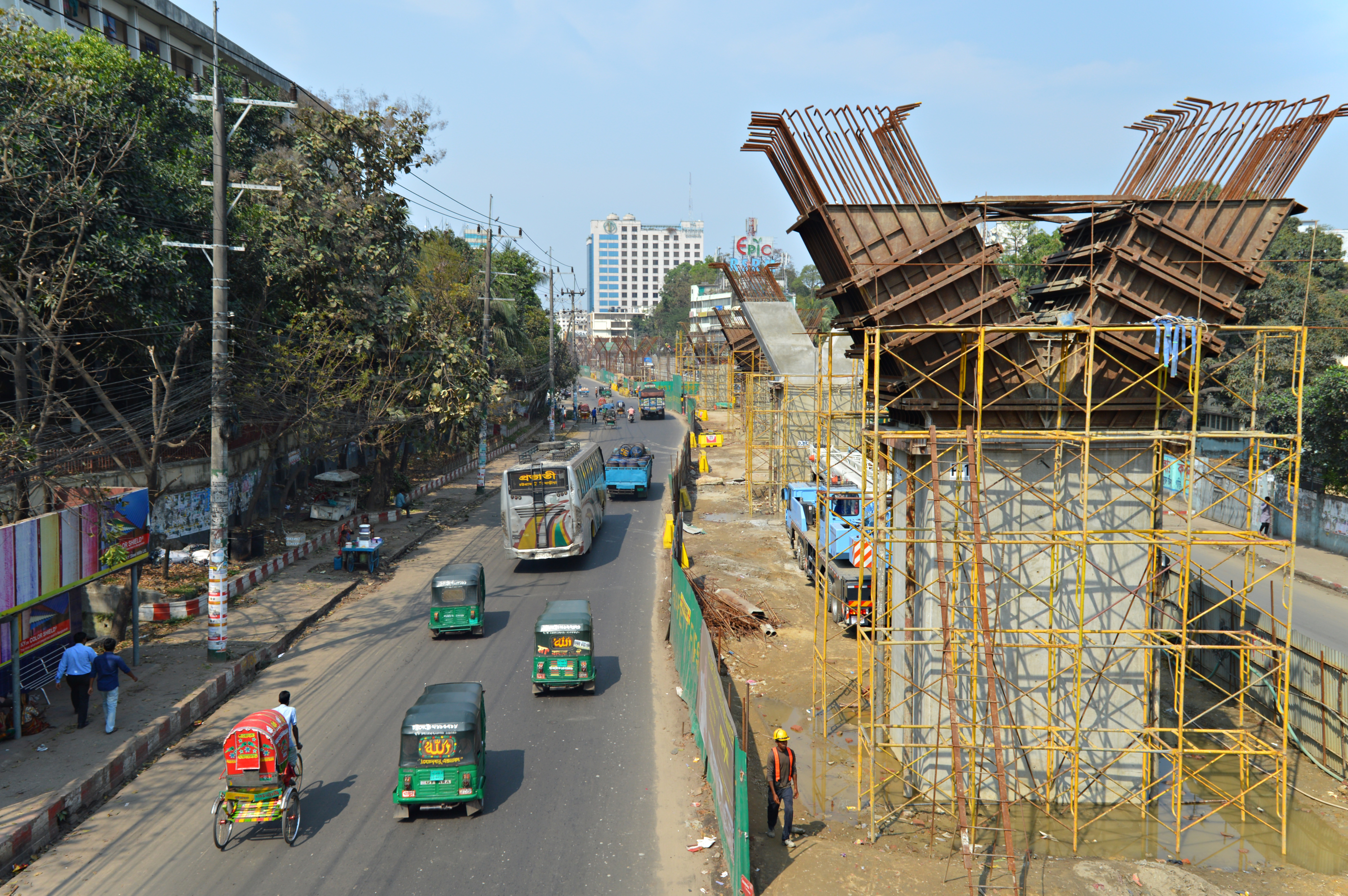 Akhtaruzzaman Chowdhury flyover in under construction